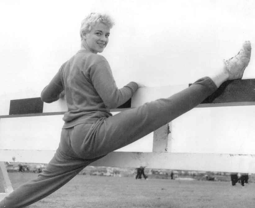 1956 Melbourne Olympics Canadian Shot Put & Discus Jackie MacDonald Press Photo